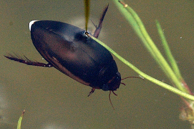 Picture taken in Commanster, Belgian High Ardennes . Species: Ilybius sp., ?fuliginosus In I. quadriguttatus should be allmost unicolor black elithra, without any yellow emargination.